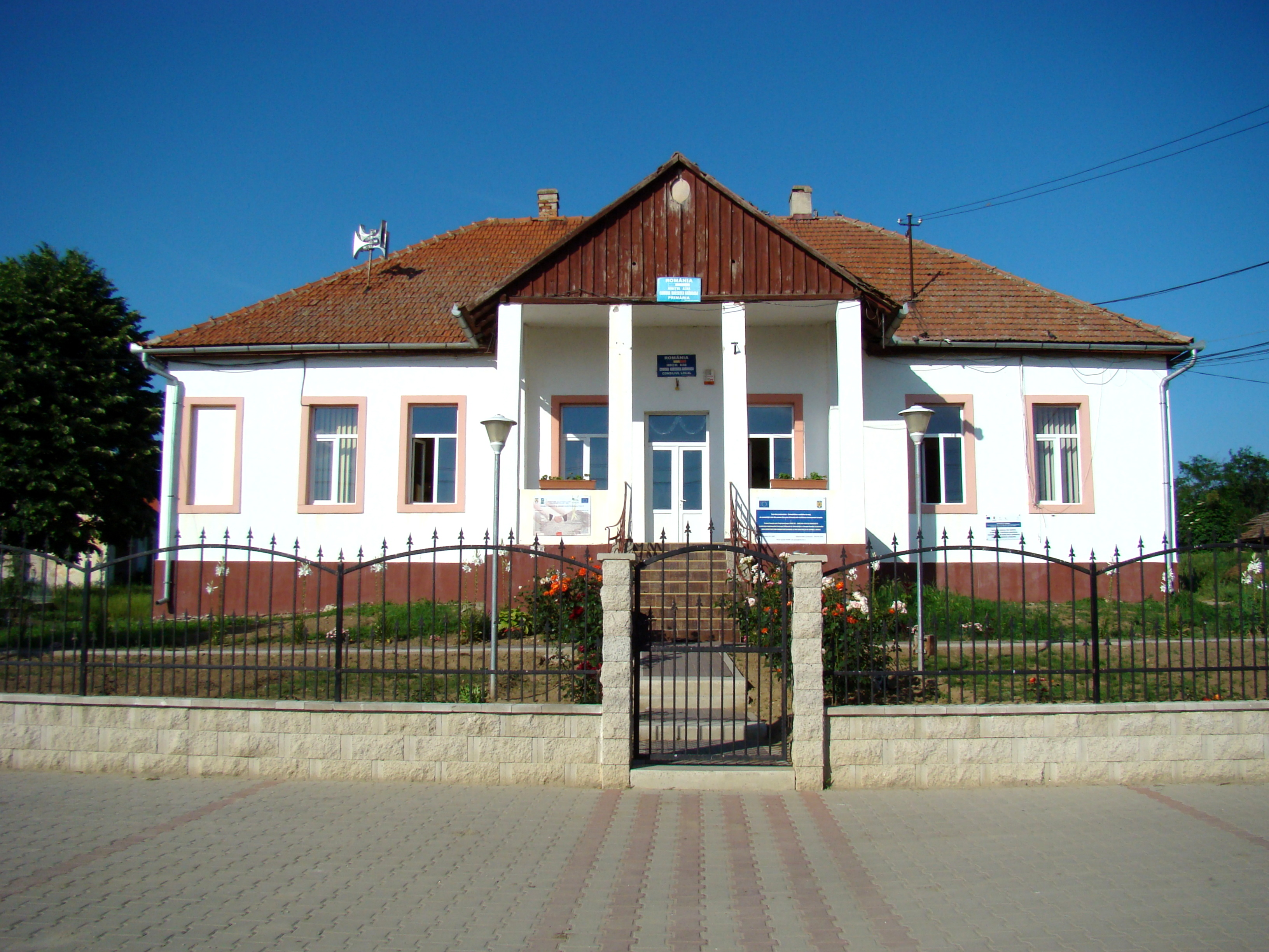 Bucerdea Grânoasă, Alba county, Romania